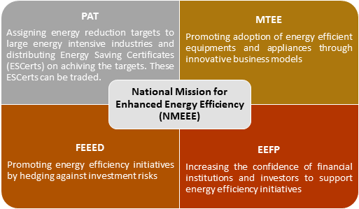 The image gives a snapshot of the 4 initiatives under the NMEEE. The description of these initiatives has been written for easy understanding and used in the image to help the user.